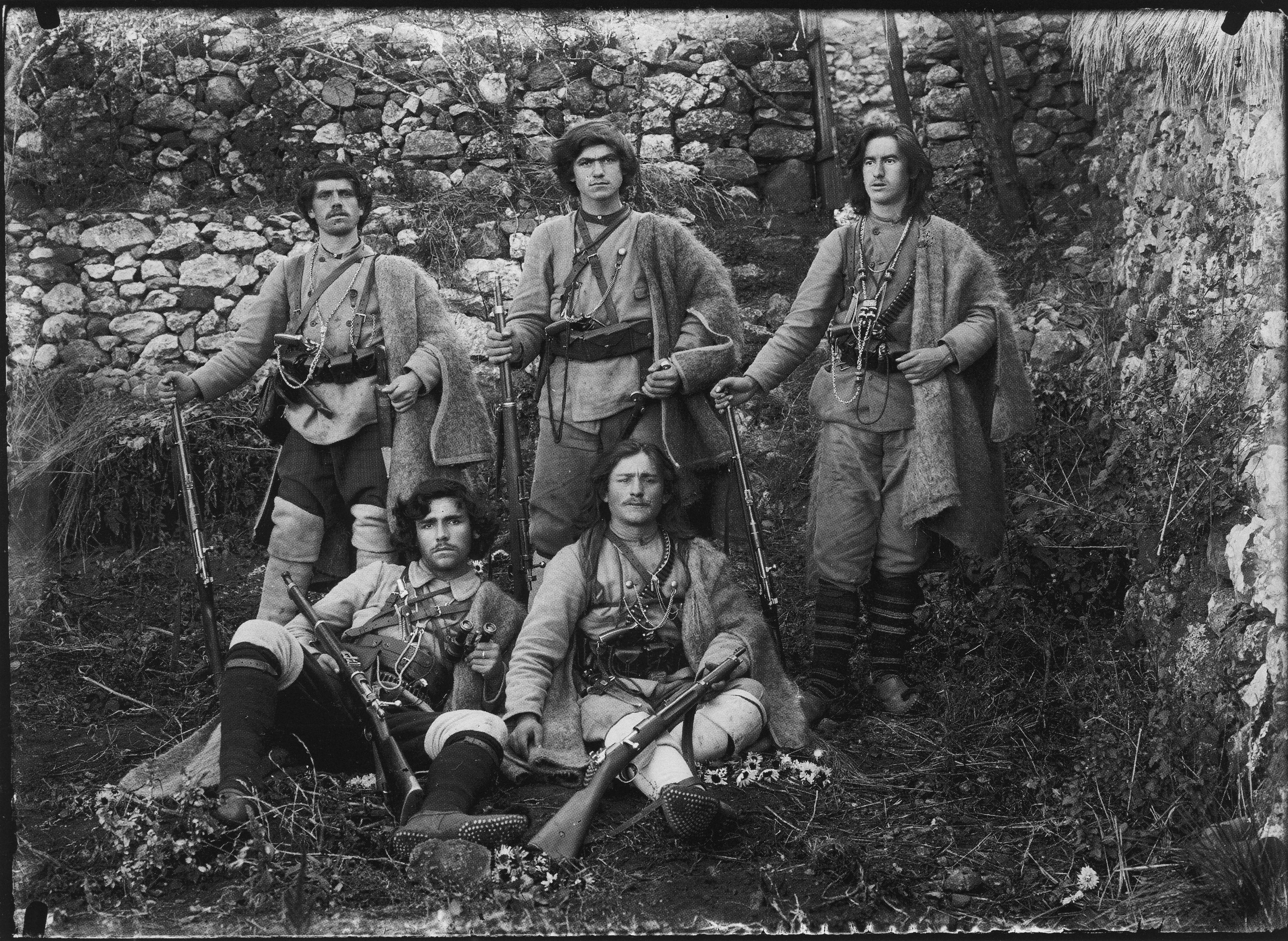 Bulgarian IMARO band in the region of Kastoria.